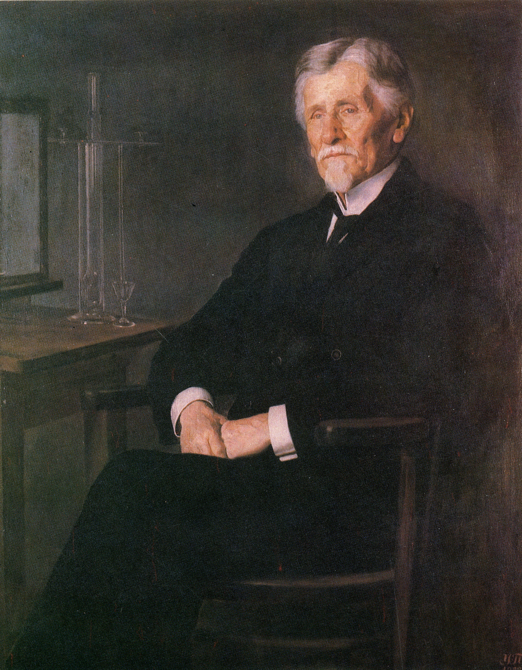 Portrait of Sima Lozanic by renowed portrait painter Uros Predic